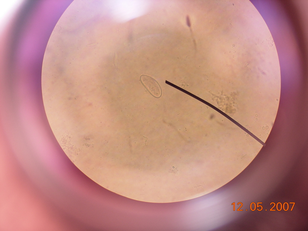 Picture through a microscope of E. vermicularis eggs.